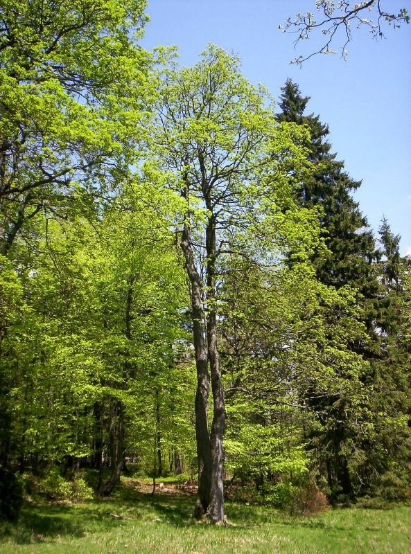 Puszcza Śnieżnej Białki Sanctuary in Bialskie Mountains, Sudety Mountains, Poland